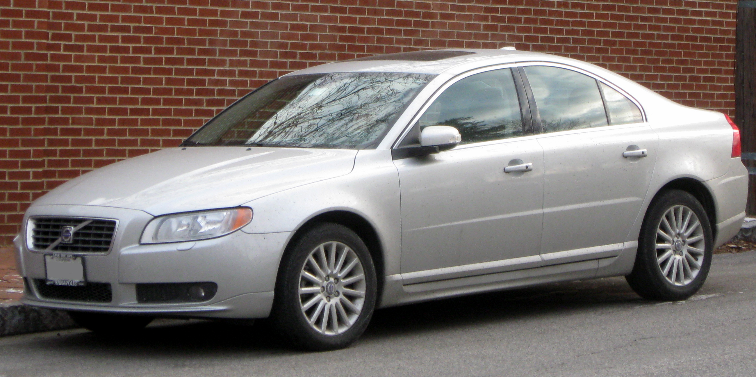 2007-2010 Volvo S80 photographed in Annapolis, Maryland, USA.